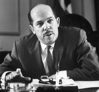 El político y escritor dominicano Héctor García Godoy